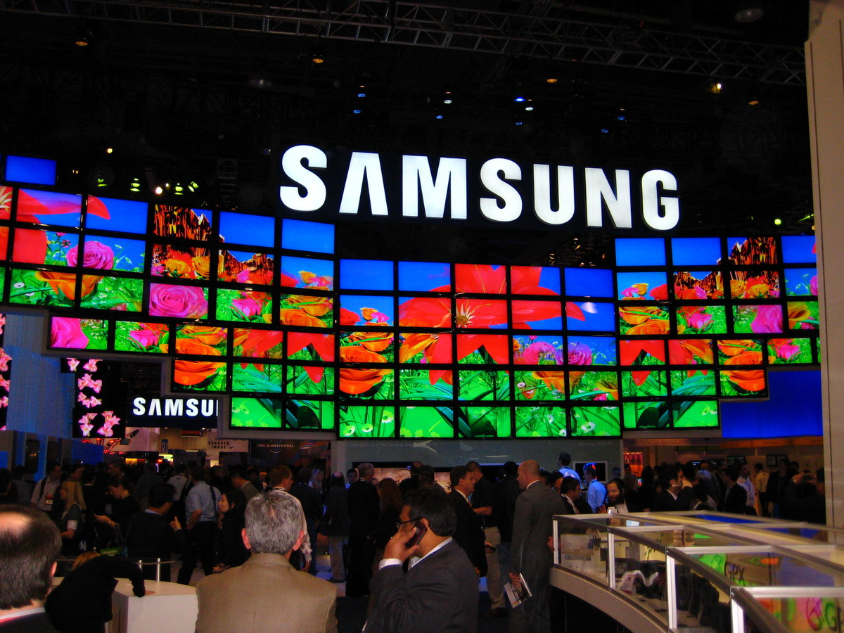 Taken at the 2009 Consumer electronics show, Las Vegas, at the Samsung Booth.